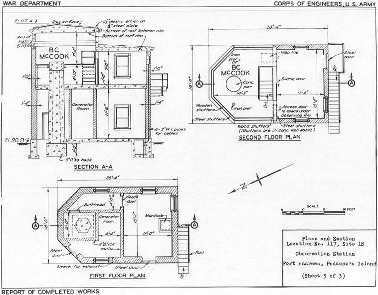 This is a plan of the so-called East Side fire control building at Ft. Andrews, completed in 1904. The plan was drawn in about 1944, when the Army was planning to splinterproof the structure. On the second floor, the observing room was in front (to the left) and the room in back was (in 1904) a plotting room. The elevation A-A clearly shows the huge octagonal concrete pillar that ran from 3 ft. deep under ground up to the second floor observation room. This pillar had a depression position finder mounted on top of it, at an observing height of 113.94 ft. The site itself was 90.9 ft. above mean low water. The plan also shows two less substantial pillars in the observing room, likely for azimuth telescopes used in spotting the fall of fire. In many other fire control towers of this period (such as ones at Ft. Strong (Long Island) and Ft. Warren (Georges Island) in Boston harbor), all that remains (in 2010) of the old structures are the massive concrete pillars for the instruments; the wood, plaster-walled, or brick buildings themselves have long since fallen apart. This is also the case with the collapsed 1907 twin observation station on the westerly hill at Fort Andrews.